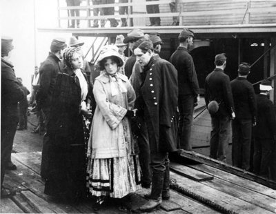 A Daughter of Confederacy, USA, 1913, production Gene Gauntier Feature Players, distribution Warner's Feature, réalisation Sidney Olcott avec Gene Gauntier (au centre) et Jack J. Clark..